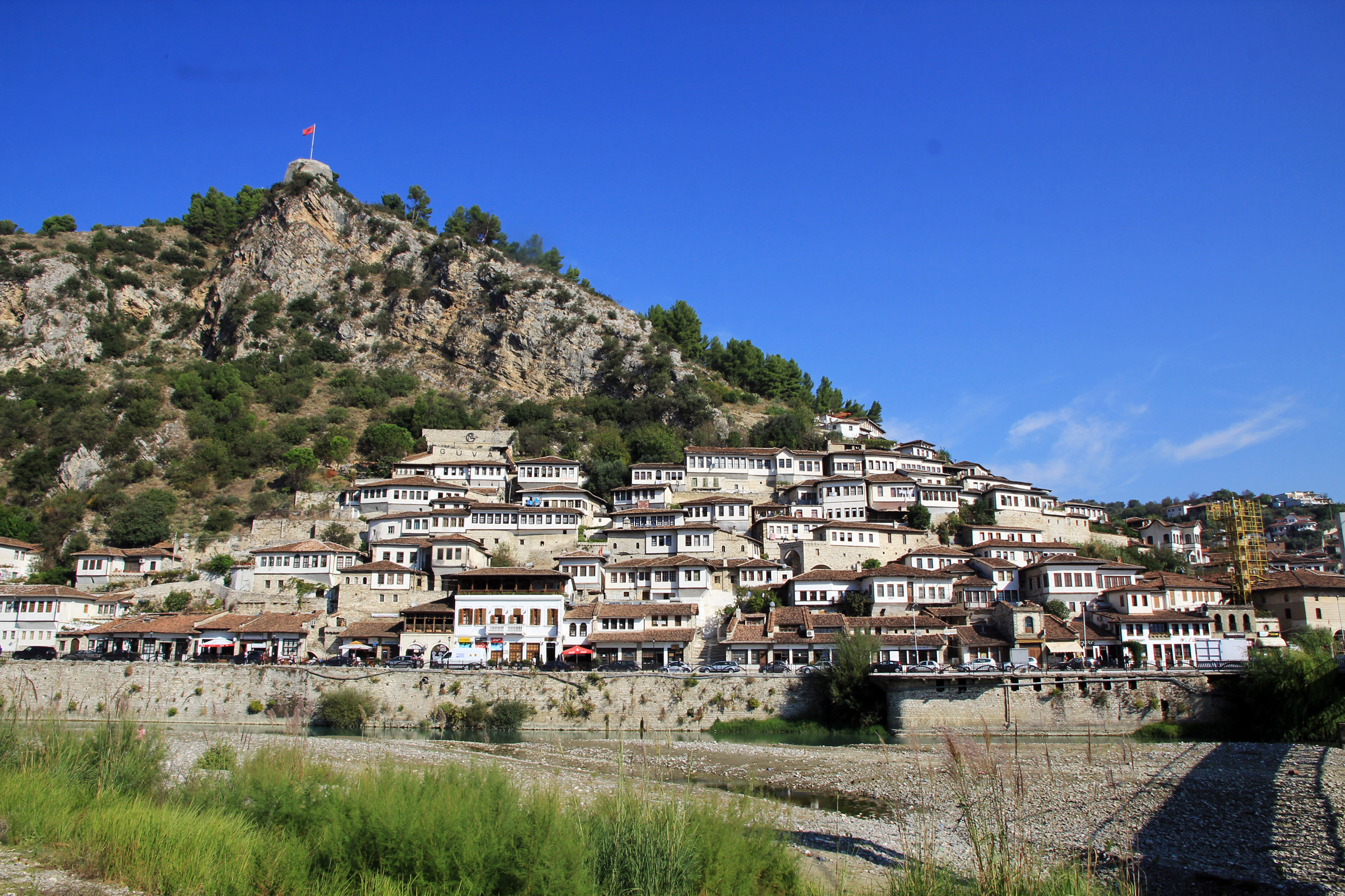 View on Mangalem, one of boroughs of the town Berat, central Albania, September 2018